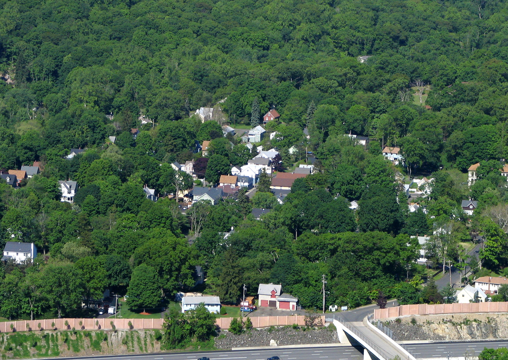 Hillburn, NY, taken from Nordkop Mtn, looking west. New York State Thruway (I-87) in foreground. Taken by User:Mwanner on 28 May, 2005.